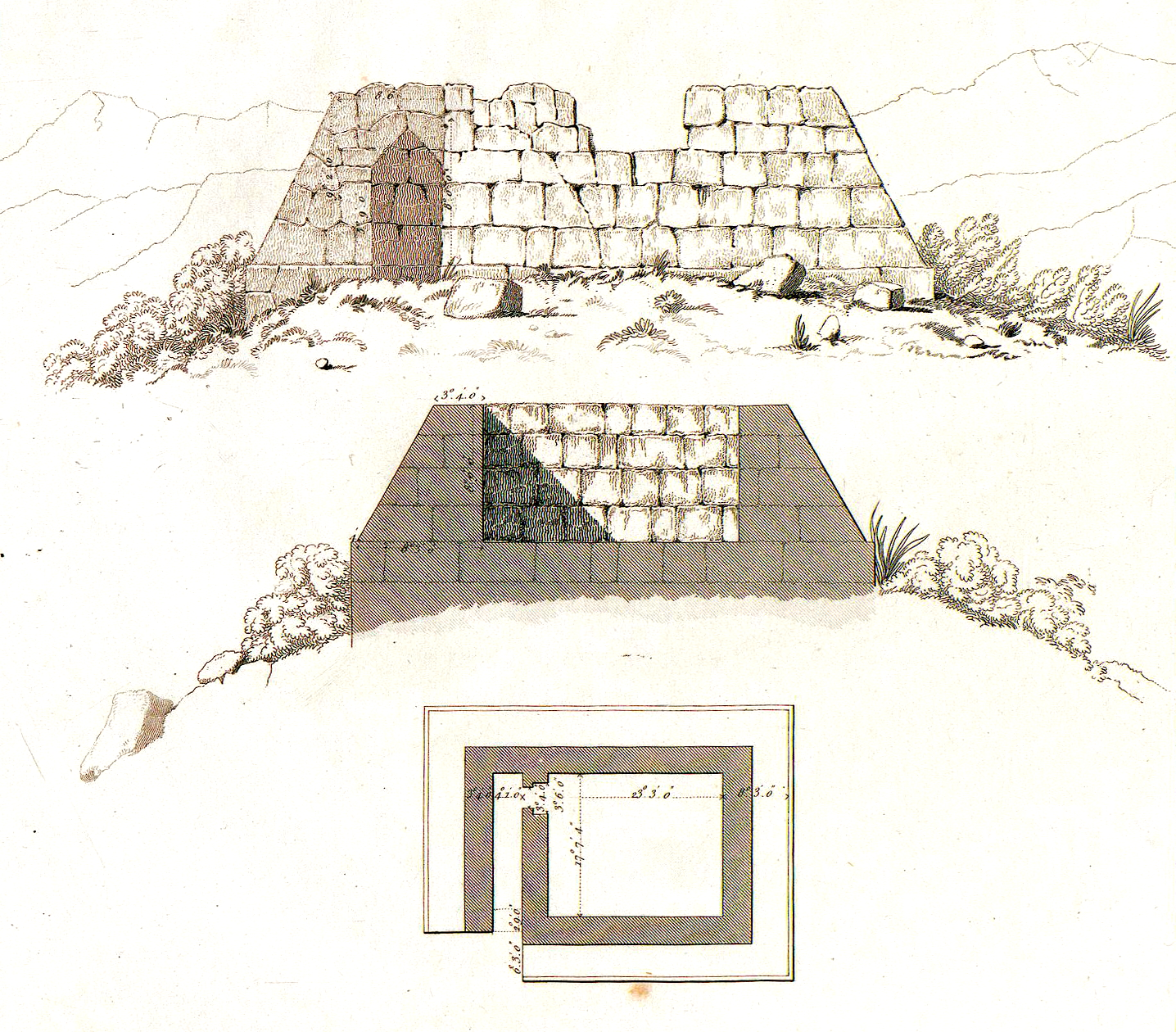 View, section and plan of the pyramid at Hellinikon